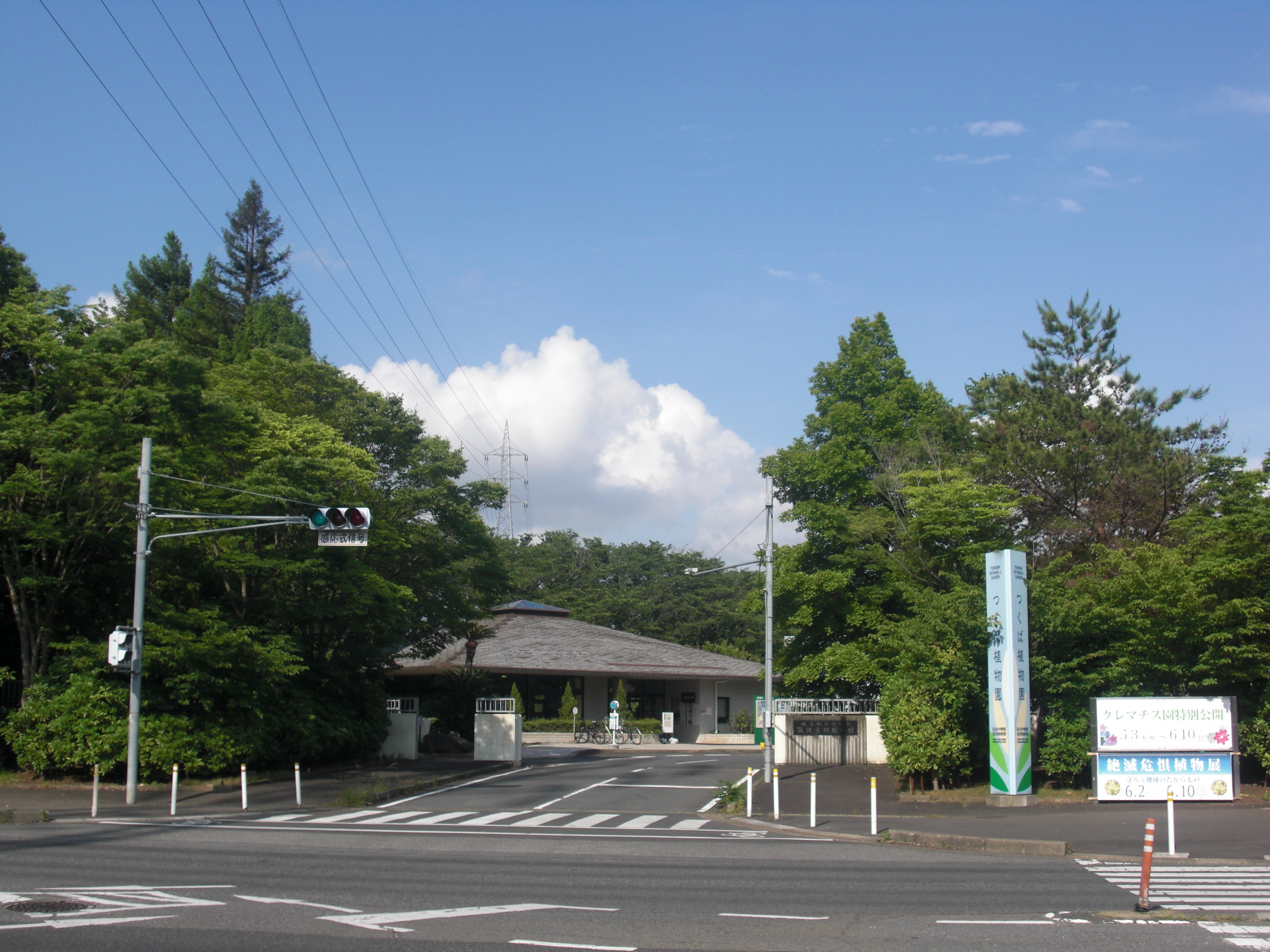 This is the Tsukuba Botanical Garden, which is located in Amakubo 4 chome, Tsukuba, Ibaraki, Japan.